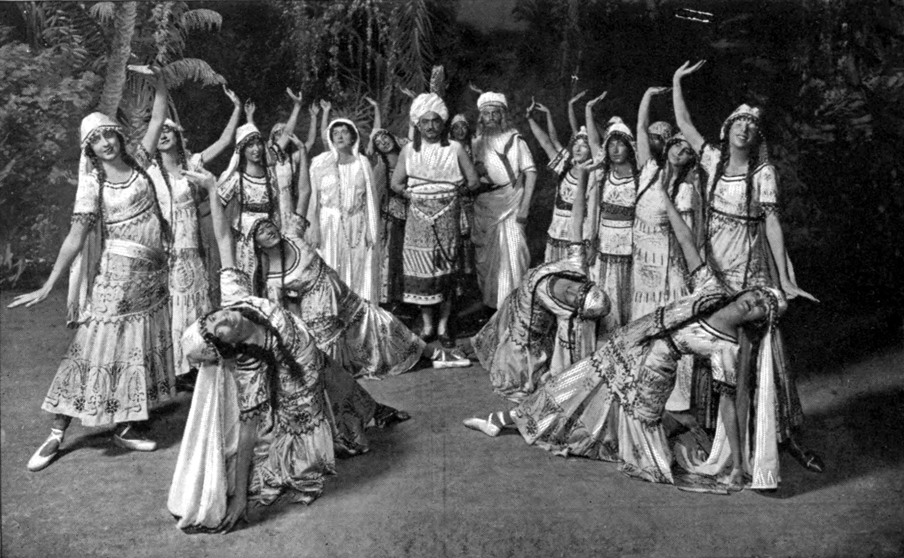 An Act II scene from the 1916 Metropolitan Opera production of Les pêcheurs de perles by Georges Bizet